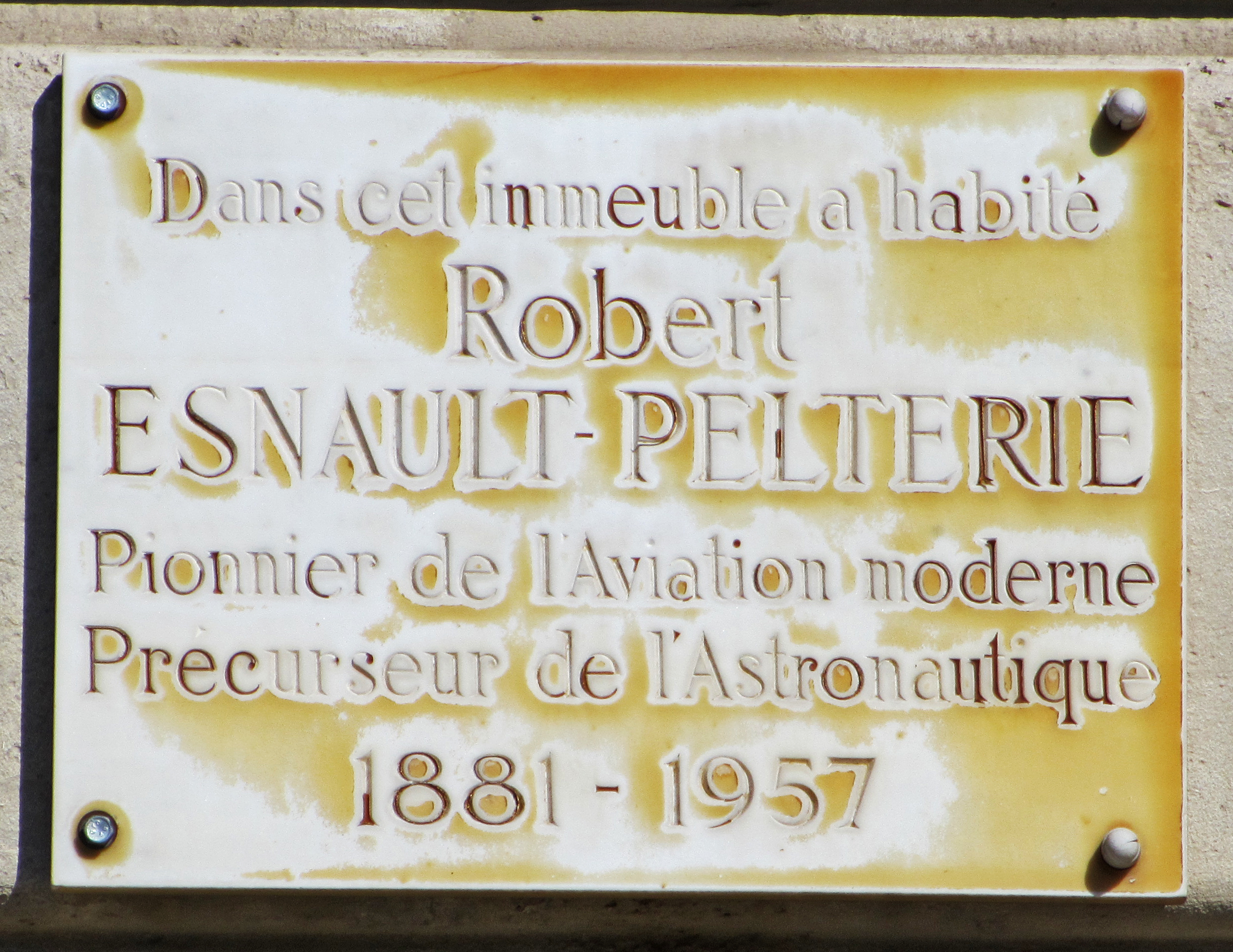 Read about him here